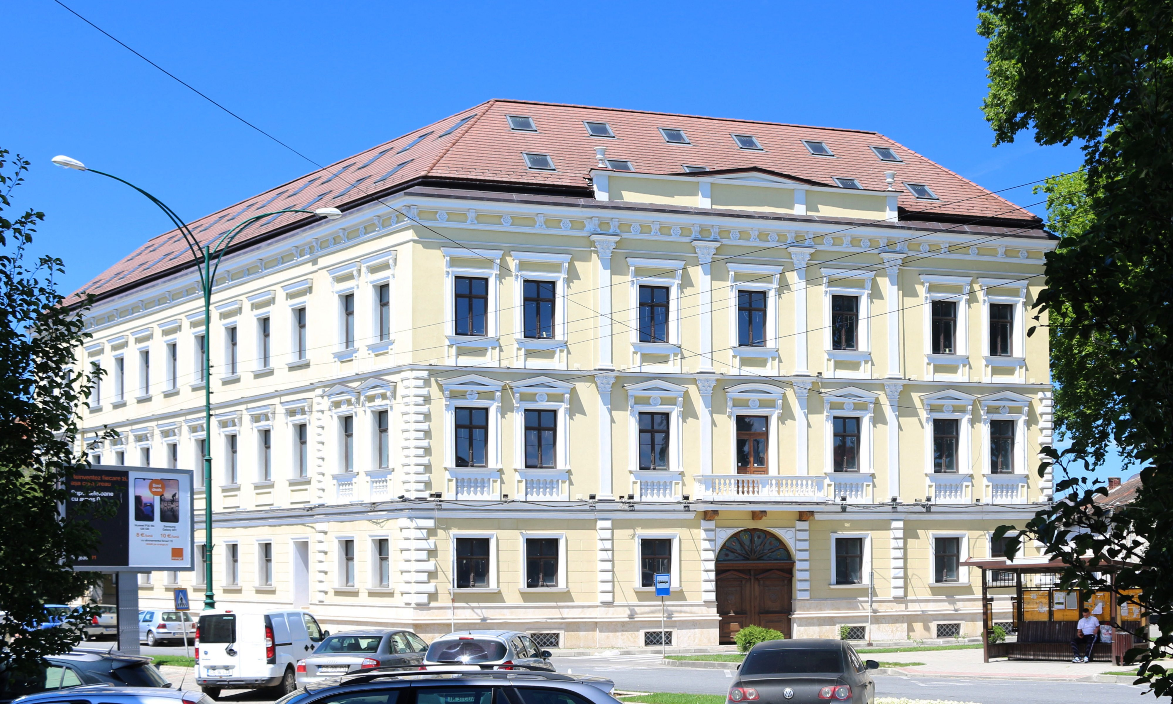 Former officers' pavilion, Dragalina Sq. no. 1, Caransebeș, Romania, built 1874